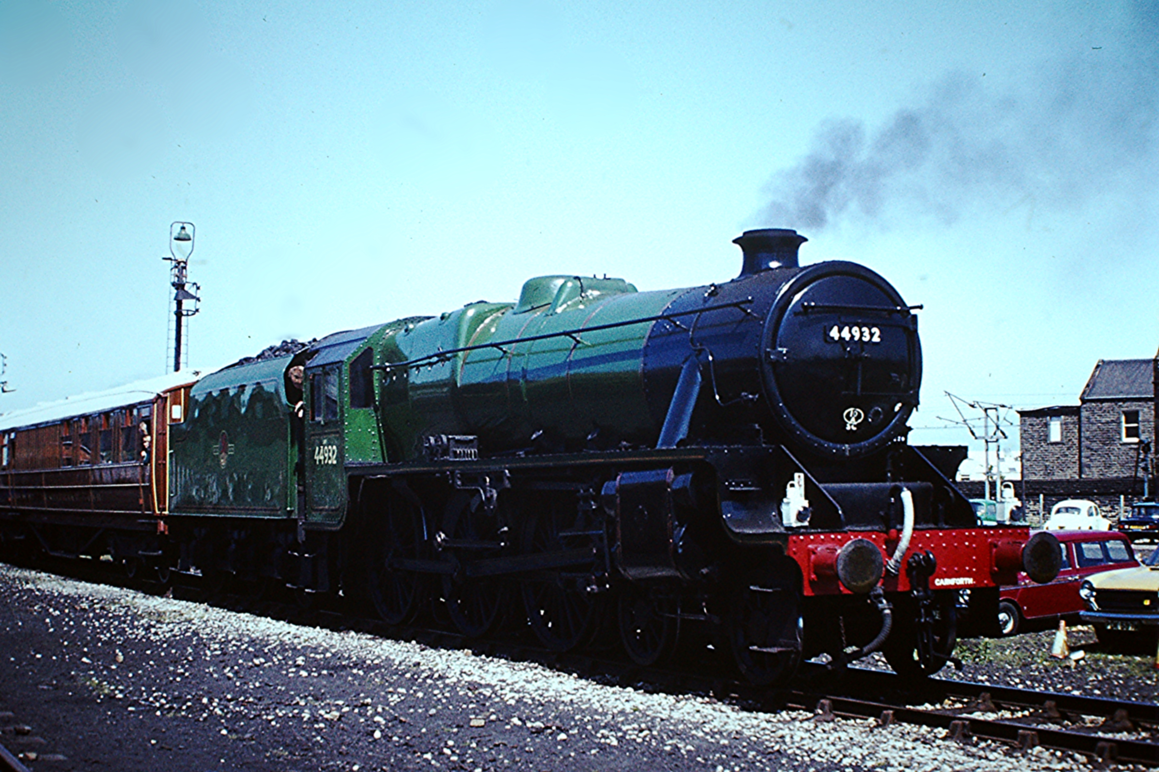 LMS Stanier Class "5MT" 4-6-0 No.44932 (ex-LMS No.4932) with top feed near dome in apple green livery, which was applied to one loco when BR was considering what livery schemes to adopt - though that loco had "BRITISH RAILWAYS" on the tender rather than the 1956 emblem which 44932 had. Pictured at Carnforth Steam Museum, 05/75. Scanned slide taken with an Exacta.